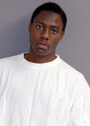 Depicted person: Umar Farouk Abdulmutallab – Nigerian attempted bomber